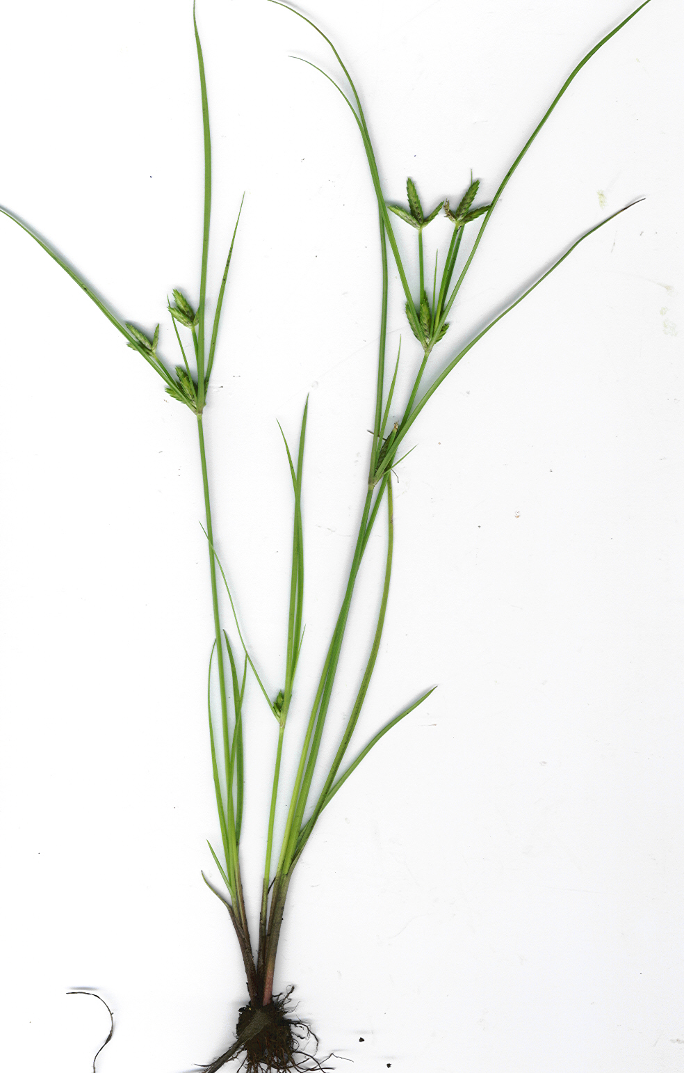 Cyperus compressus (plant). Location: Maui, Hana Hwy